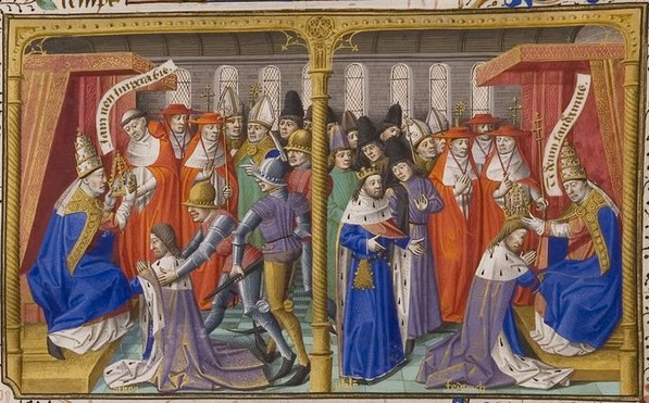 Ms 722/1196 f.392r Frederic II (1194-1250) crowned by Pope Honorius III (d.1227) from Le Miroir Historial, by Vincent de Beauvais